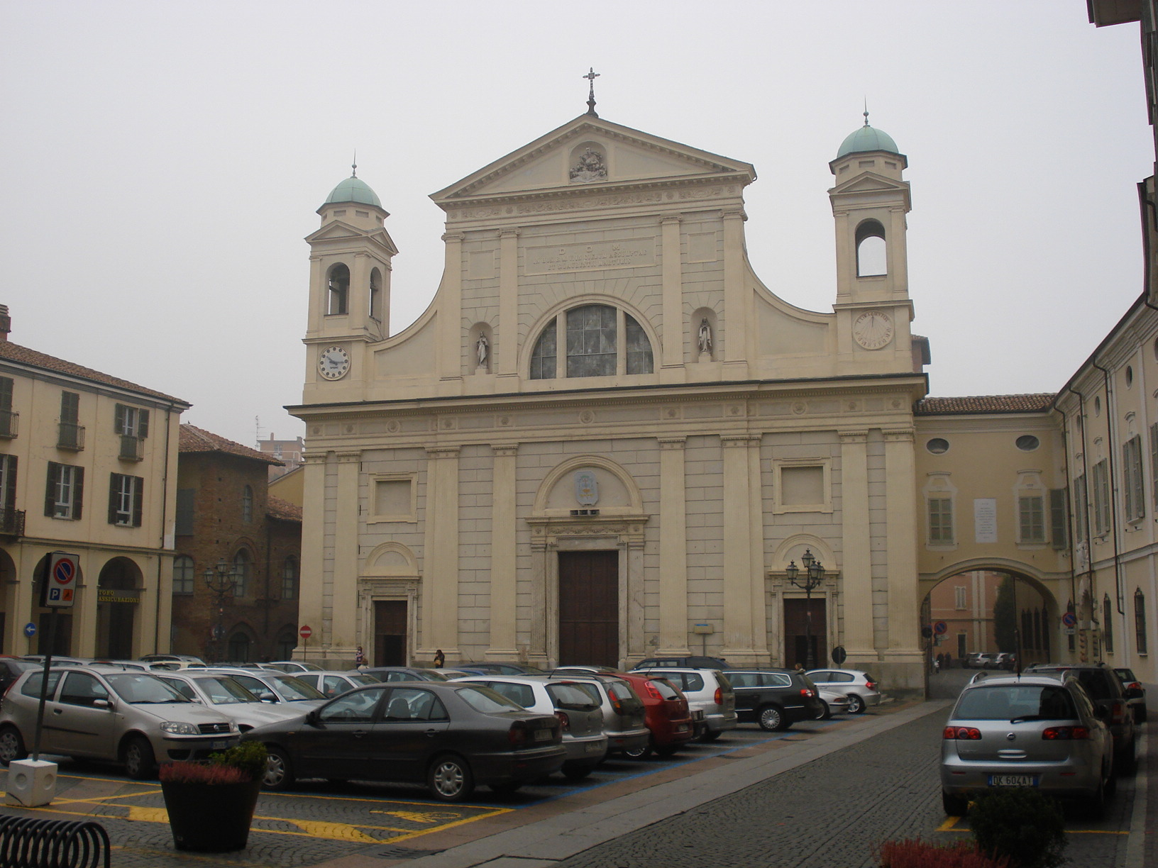 Duomo Square and the Palace of Bishop on right